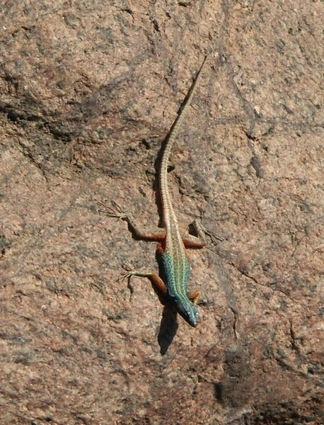 Platysaurus broadleyi at Augrabies Falls National Park